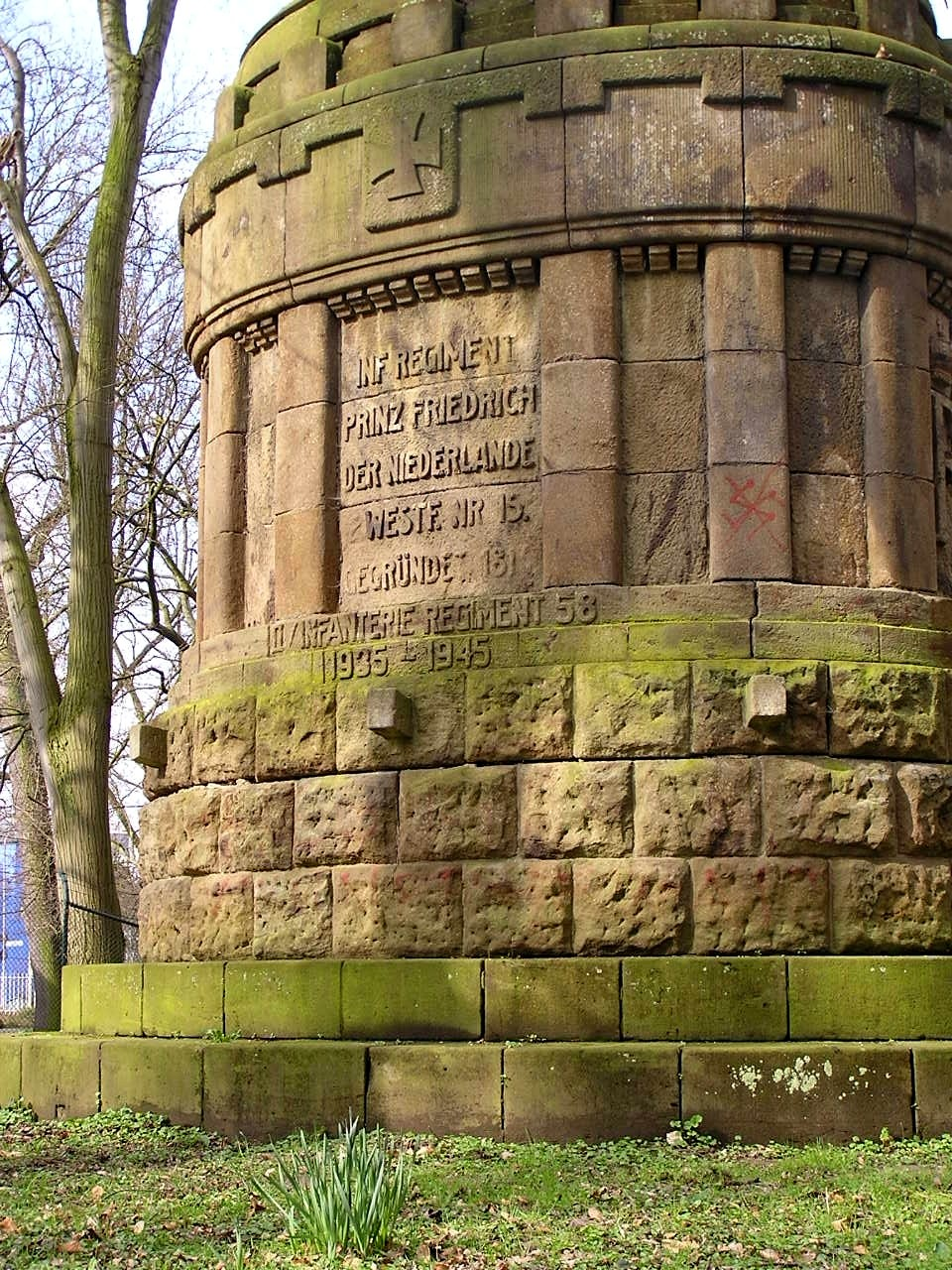 This image shows a heritage building in Germany, located in the North Rhine-Westphalian city Minden (no. 243).